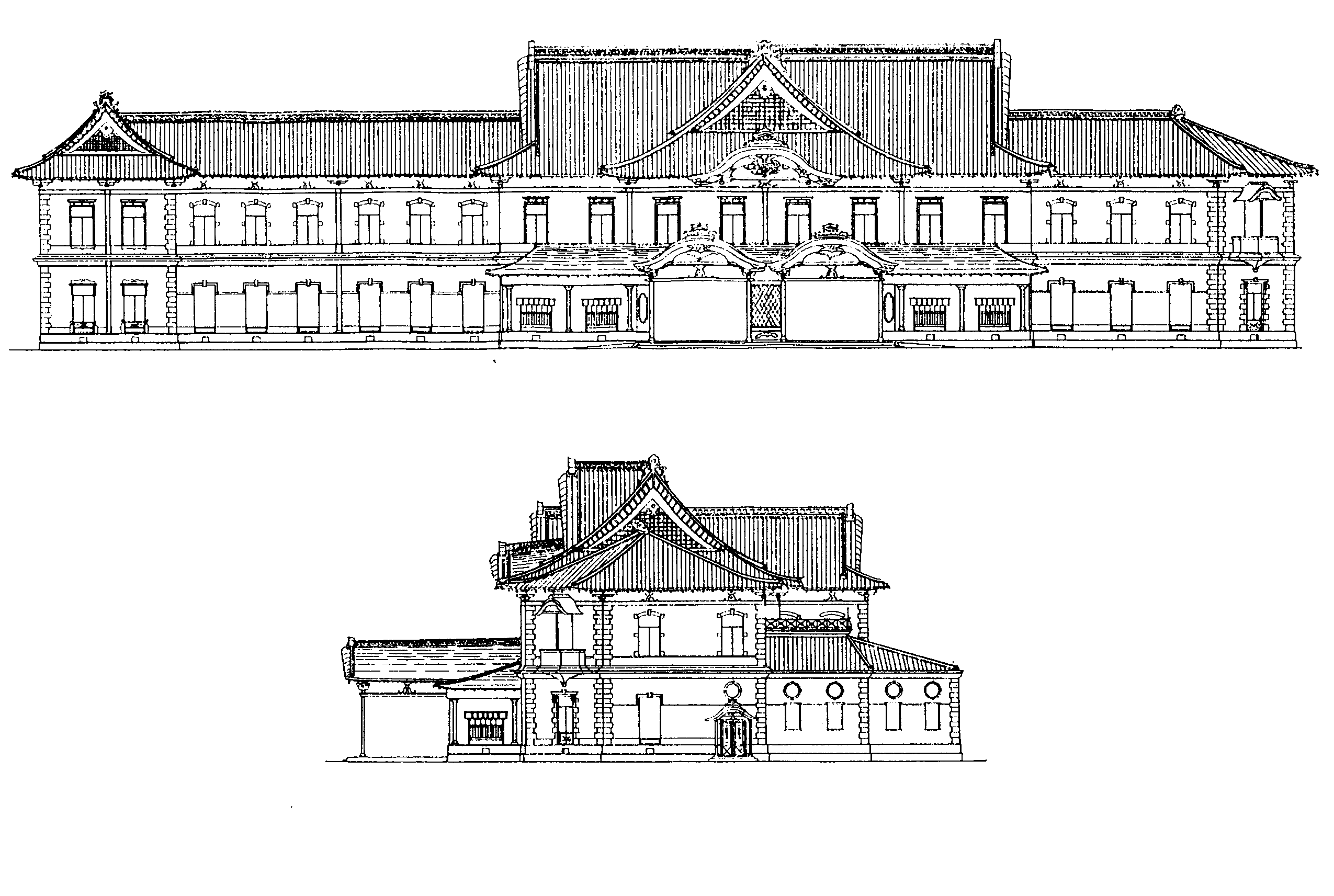 Franz Baltzer's original plan of Departure side of Tokyo station, which was actually not employed.